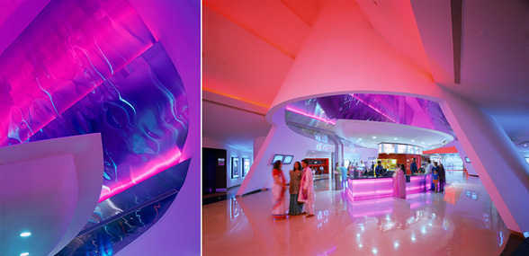 Photograph by Aleš Jungmann